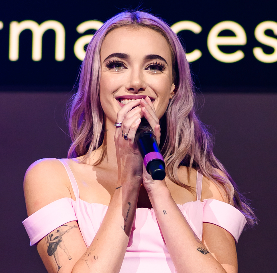 Olivia O'Brien performing live at the ACURAxGENIUS event at Mack Sennett Studios on 09/26/2019.